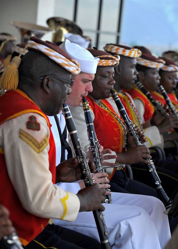 The U.S. Fleet Forces Band, and members of the Jamaican Defense Force Band perform during the closing ceremony for the Jamaican phase of Continuing Promise in Kingston, Jamaica, April 21, 2011.